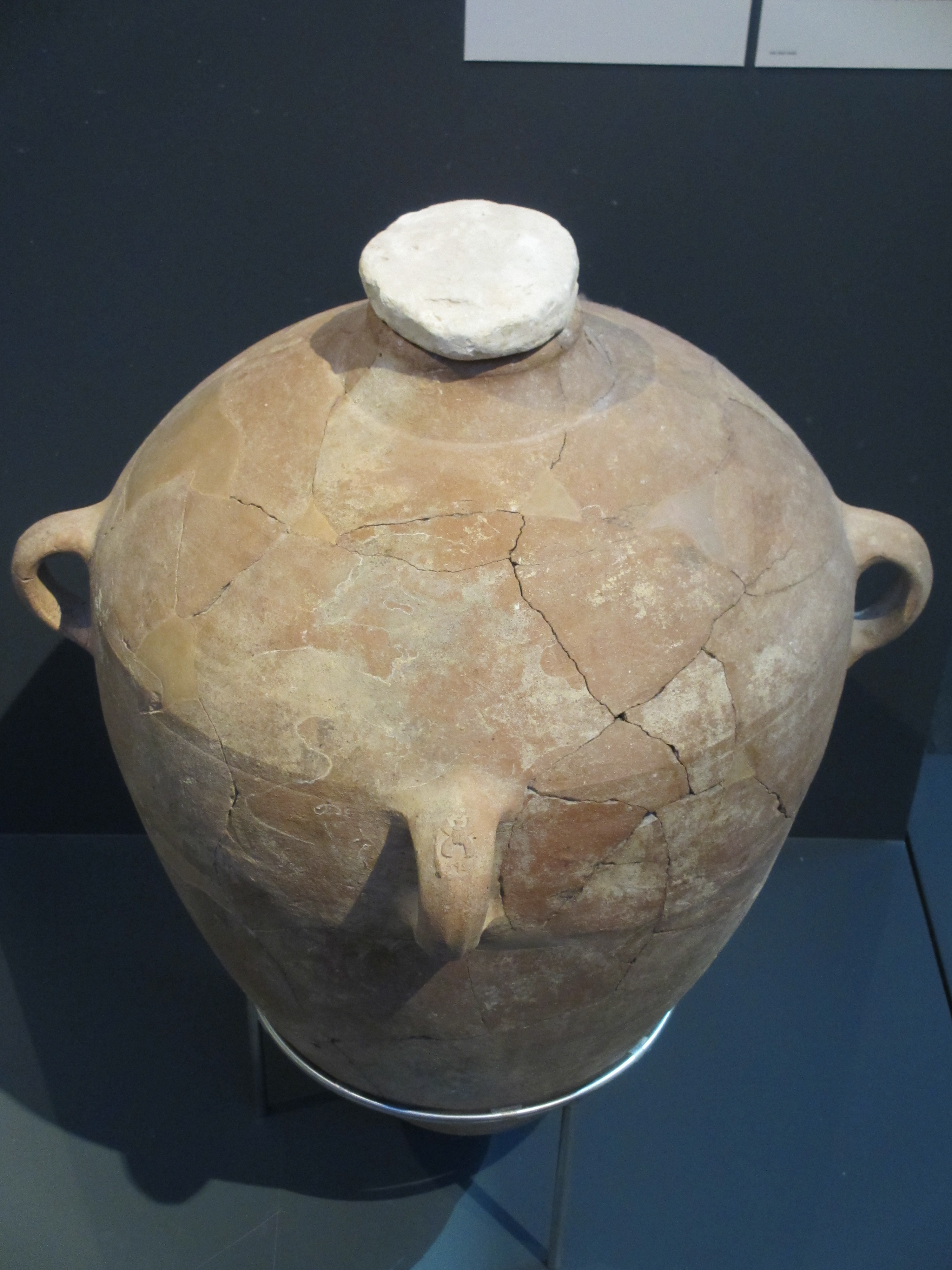 Storage jar with "LMLK seal" = "belonging to the king, Hebron" (Lakish, late 8th BCE). Israel Museum, Jerusalem